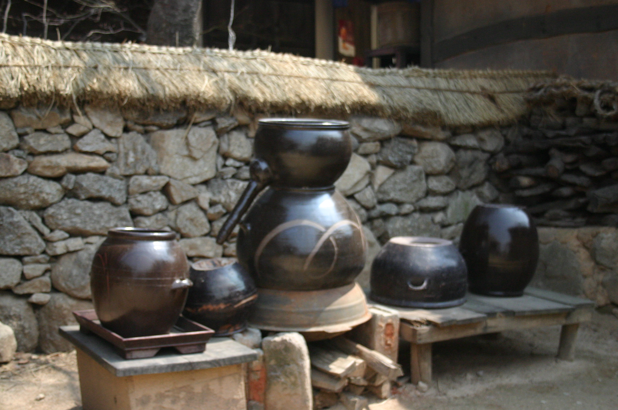 Sojugori (소주고리) on the center and different shaped hangari (항아리)